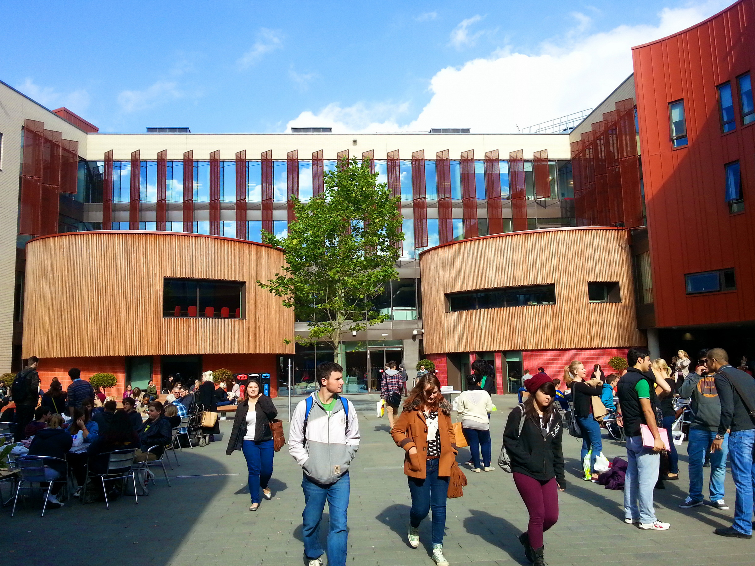 Lord Ashcroft Building (LAB), seat of the Lord Ashcroft International Business School, is seen from the Helmore building coffee shop in Anglia Ruskin University.